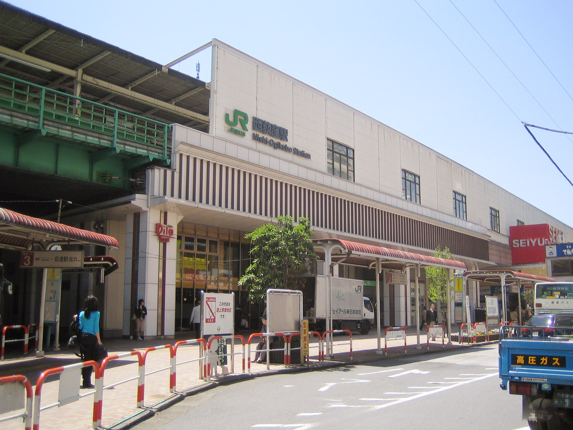 The north gate of the Nishi-Ogikubo Station (西荻窪駅), in Suginami, Tokyo, Japan